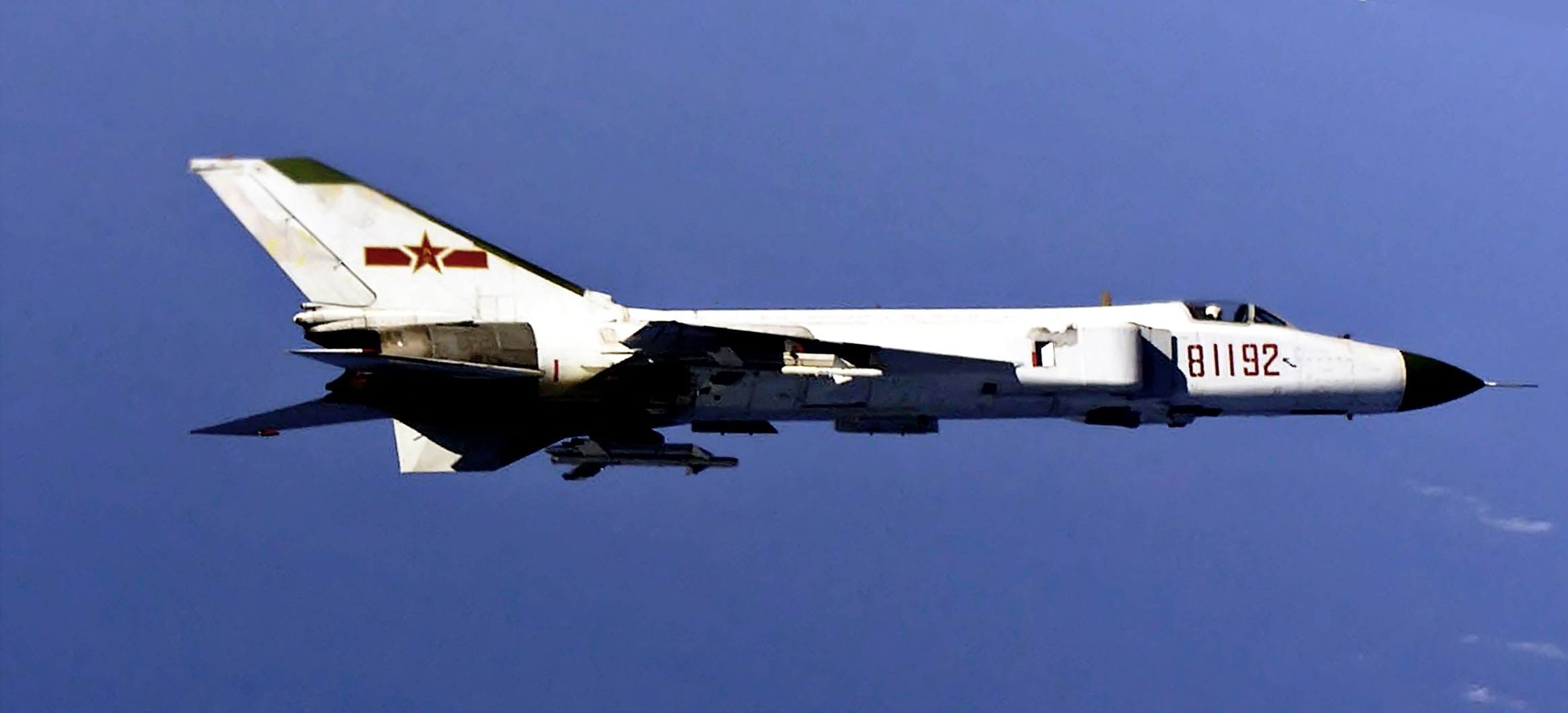 A Chinese F-8 flies near a Navy aircraft